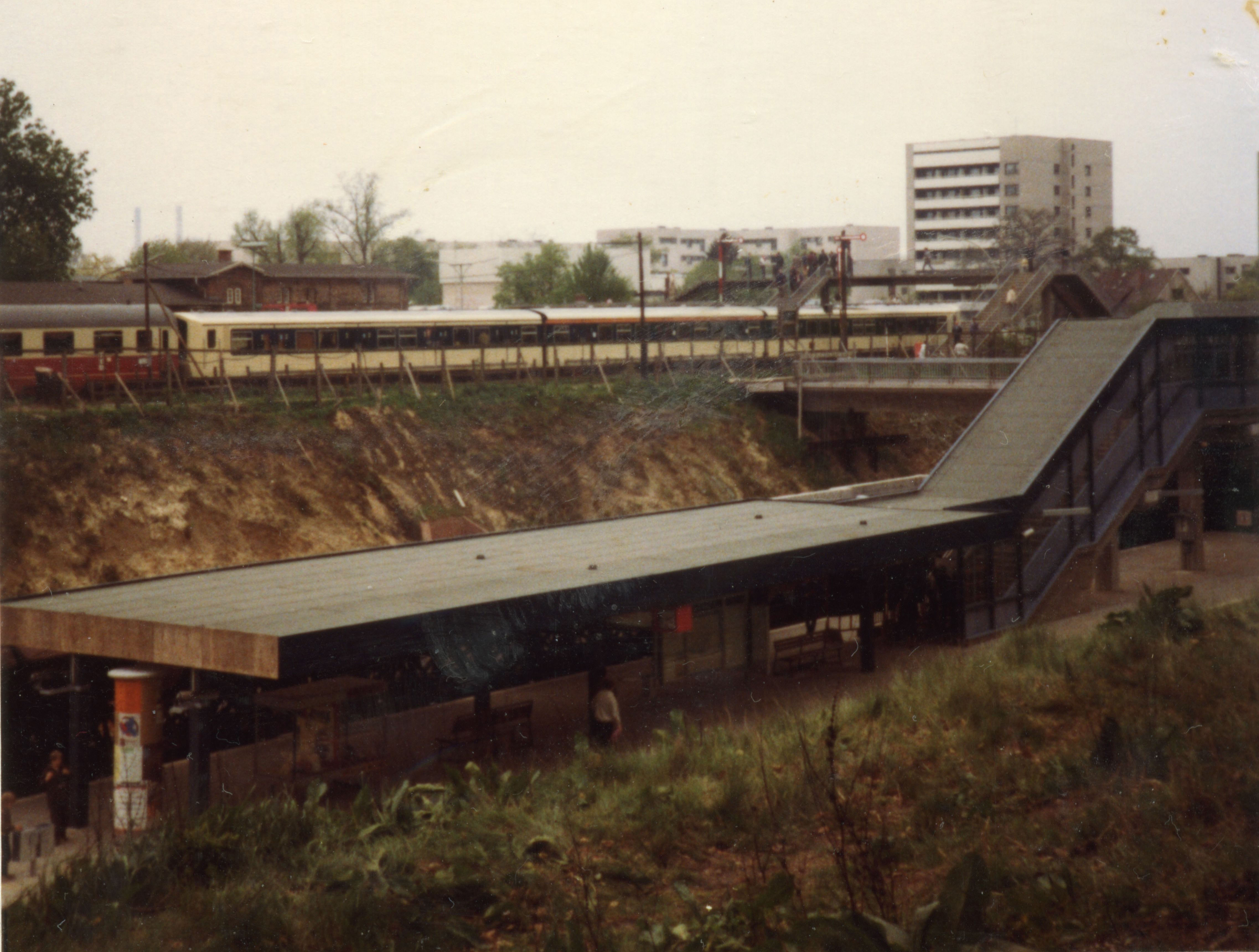 S-Bahn station in Hamburg-Rissen, Germany 1983